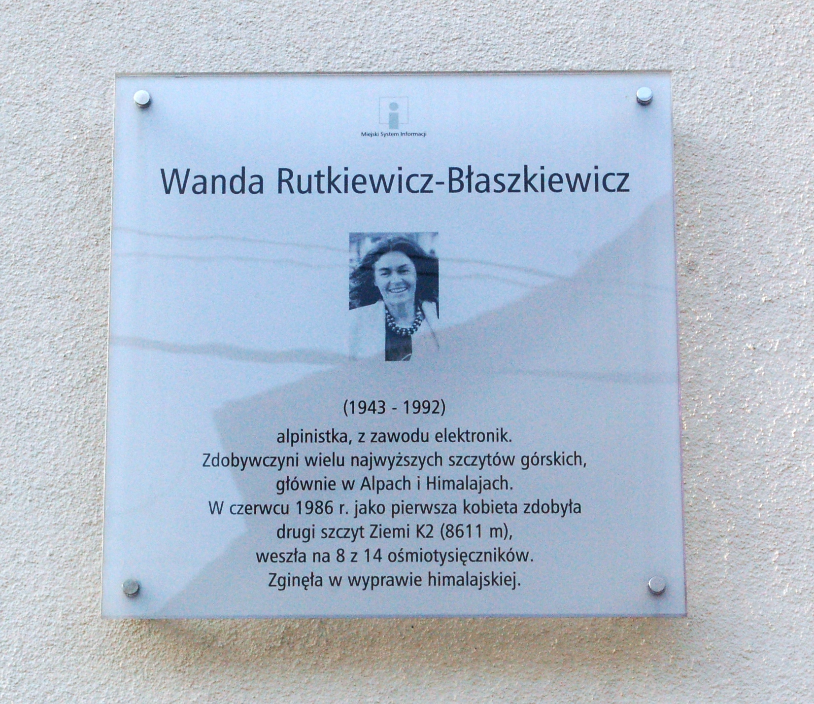 Information board about Wanda Rutkiewicz along the namesake street, at the Willy-Brandt-Schule in Warsaw